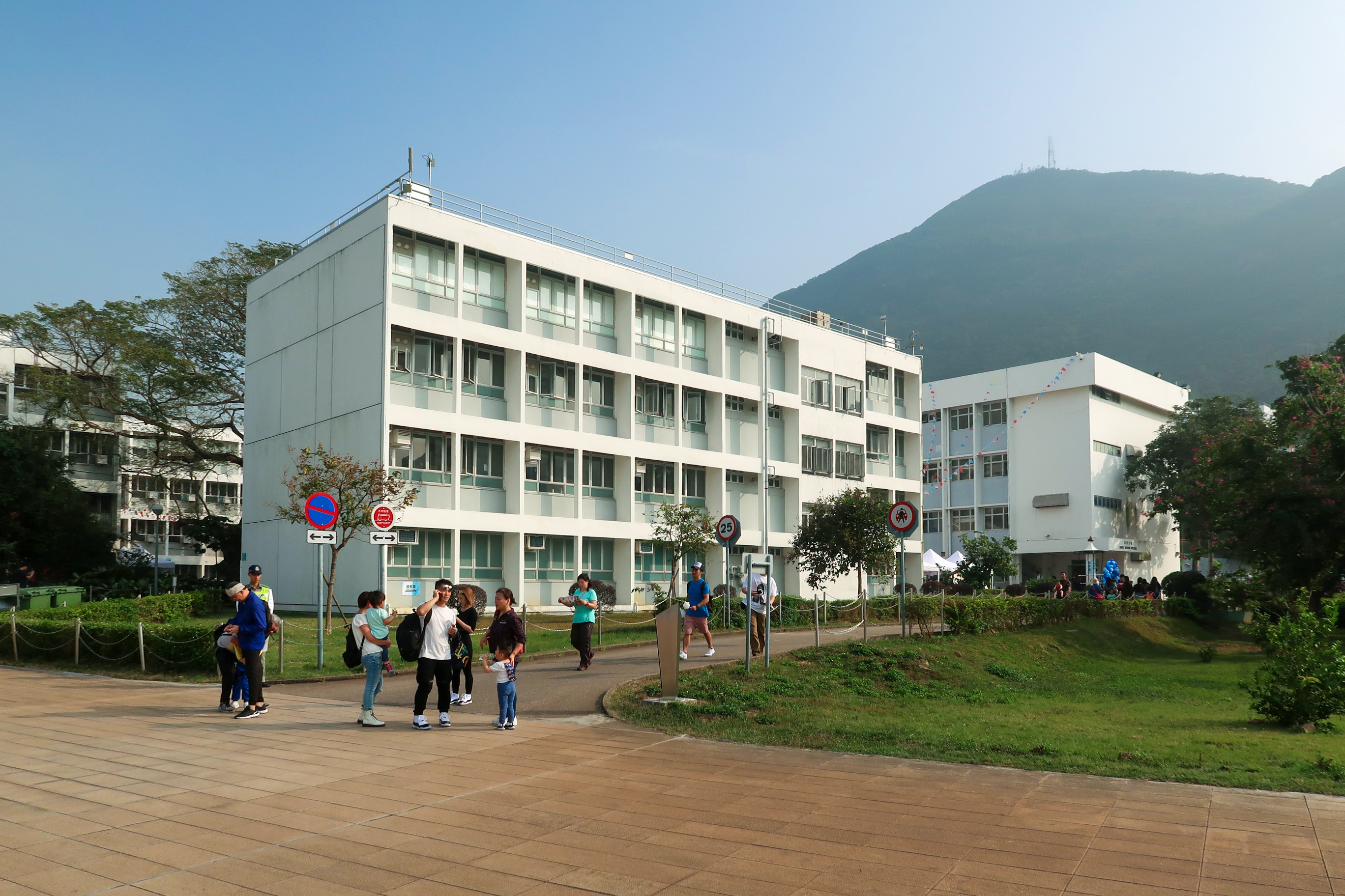 Hong Kong Police College Recruit Constable Quarters